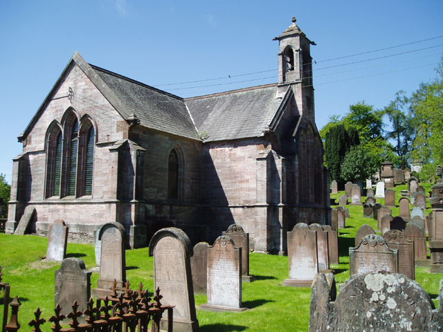 Tynron Church. This Church sits on a knoll behind the village cottages and the Churchyard provides fine views of the surrounding countryside.